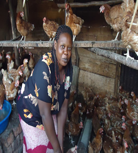 A client and her poultry business.